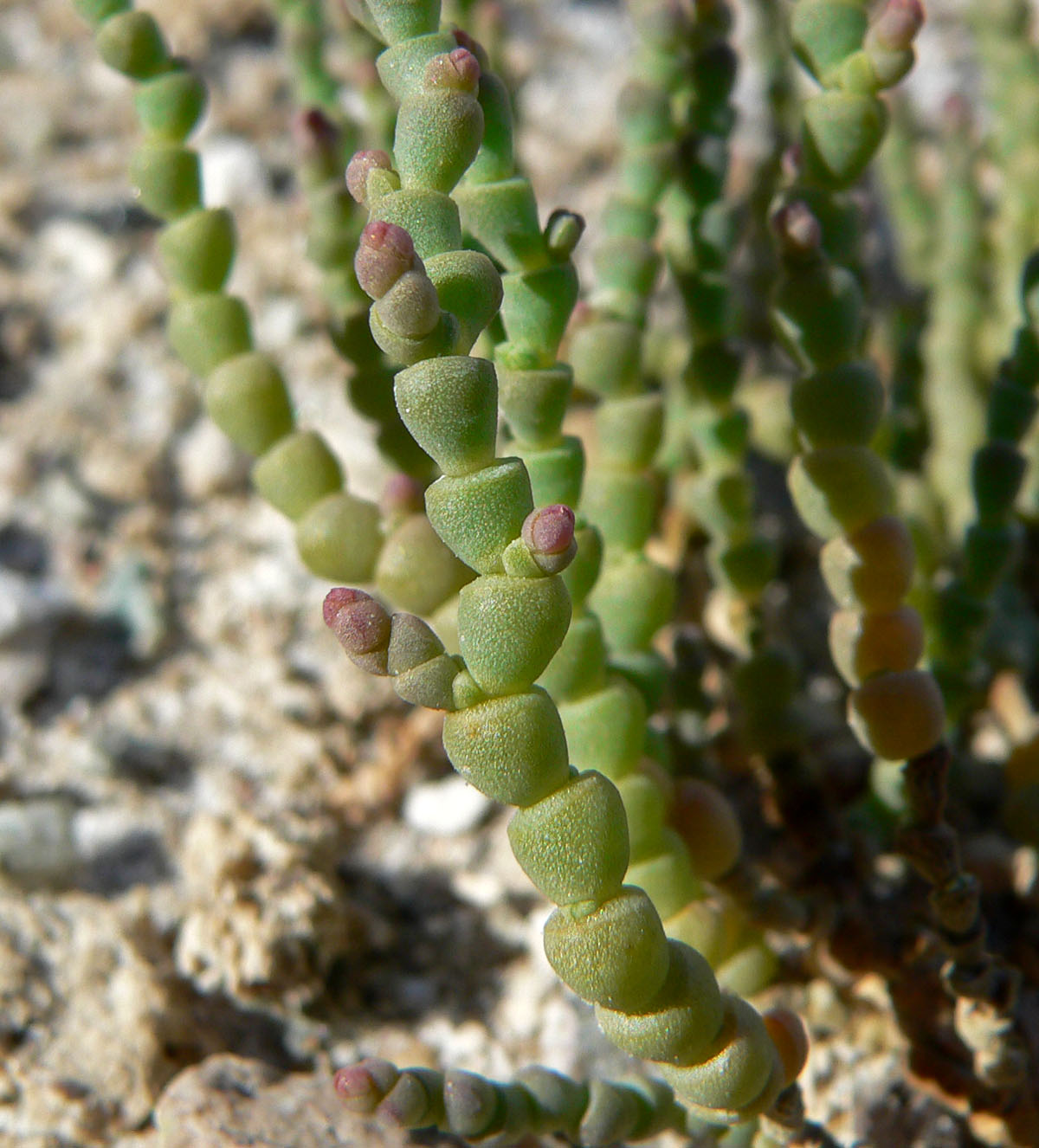 Allenrolfea_occidentalis (iodine bush) at Badwater, Death Valley